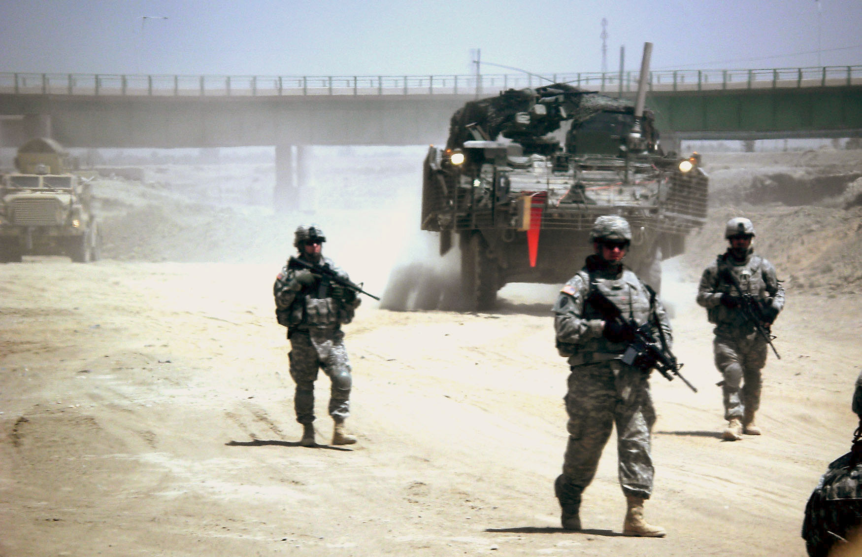 Soldiers assigned to Battery B "Bulldogs," 2nd Battalion, 11th Field Artillery Regiment "On Time," 2nd Stryker Brigade Combat Team "Warrior," 25th Infantry Division, Multi-National Division - Baghdad, escort members of the embedded provincial reconstruction team attached to 2nd SBCT in Sab al Bour, northwest of Baghdad, April 24, 2008. The Bulldogs were announced as the 2008 winners of the Henry A. Knox award, recognizing them as the best active duty artillery battery in the Army.